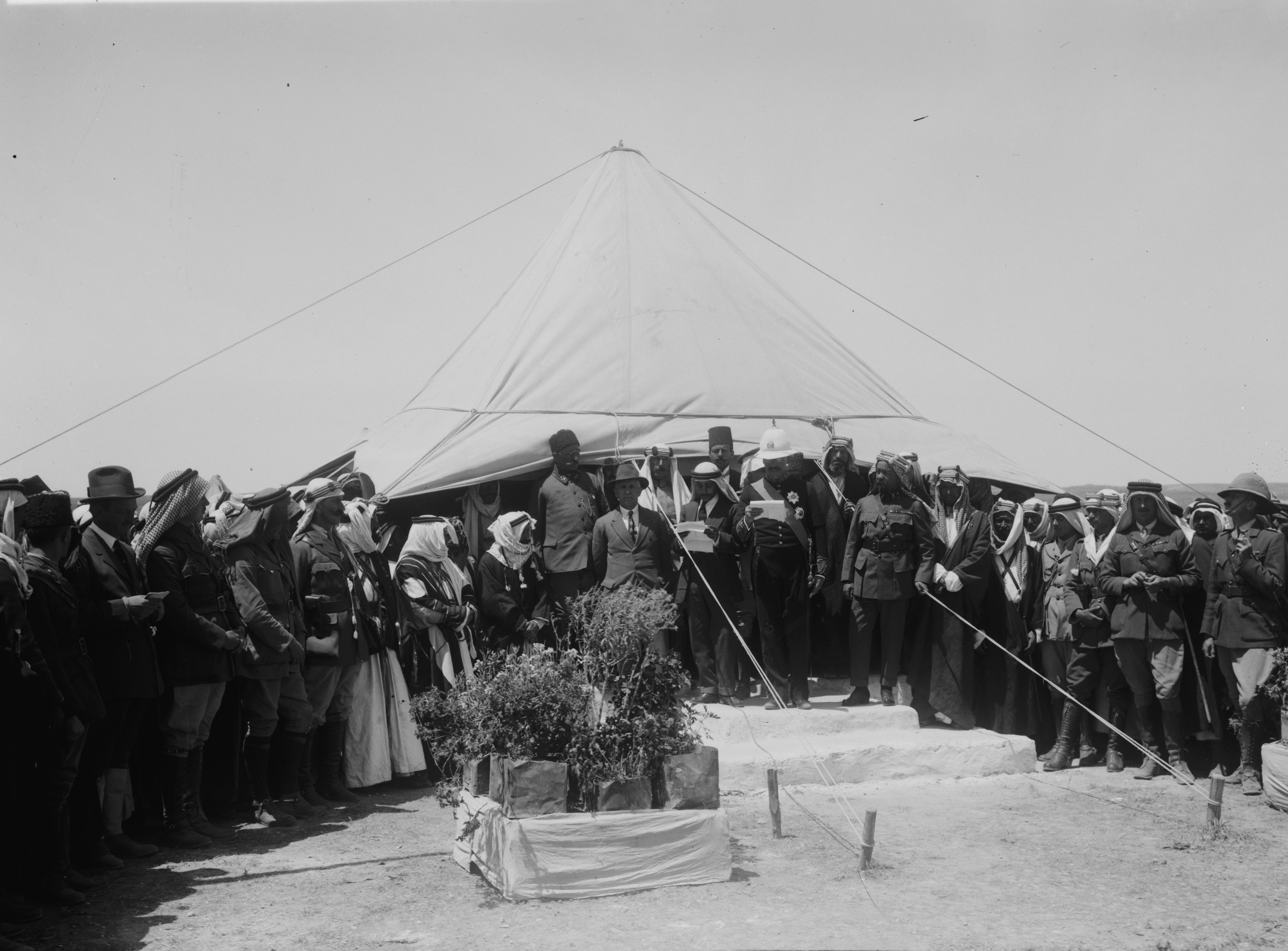 Title: Sir Herbert Samuel's second visit to Transjordan, etc. Sir Herbert Samuel reading the proclamation. Abstract/medium: G. Eric and Edith Matson Photograph Collection Physical description: 1 negative